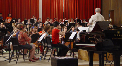 West-East Divan Rehearse. Under the lead of Daniel Barenboim, in Pilas, Sevilla, Spain, 07-25-2005.